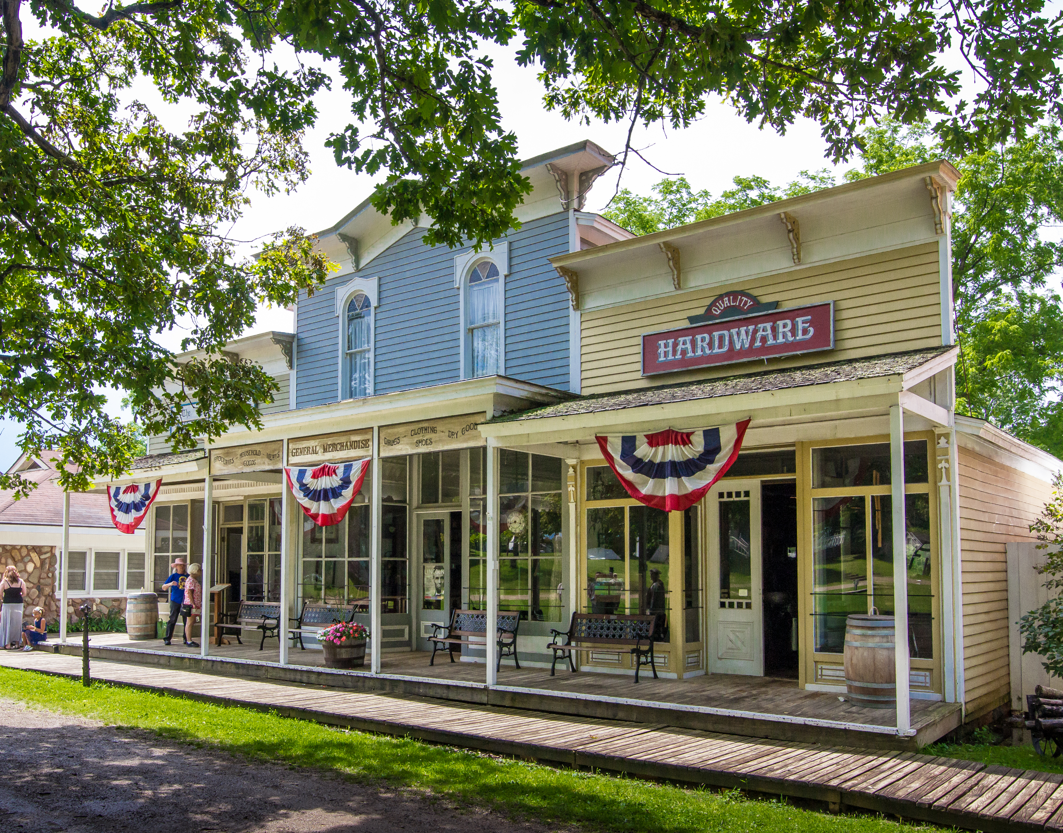 Main Street2